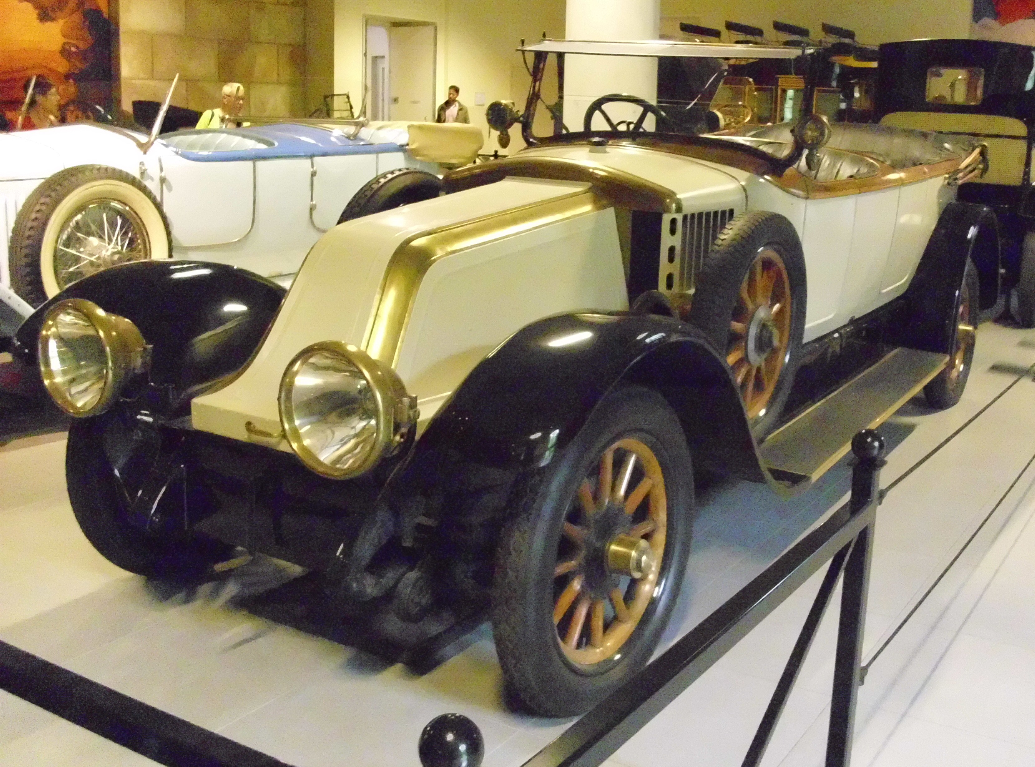 Renault Type JP Torpedo 1922